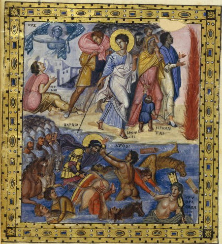 Paris psalter, BnF MS Grec 139, folio 419v. Moses goes through the Red Sea. The army of Pharaoh is drown.